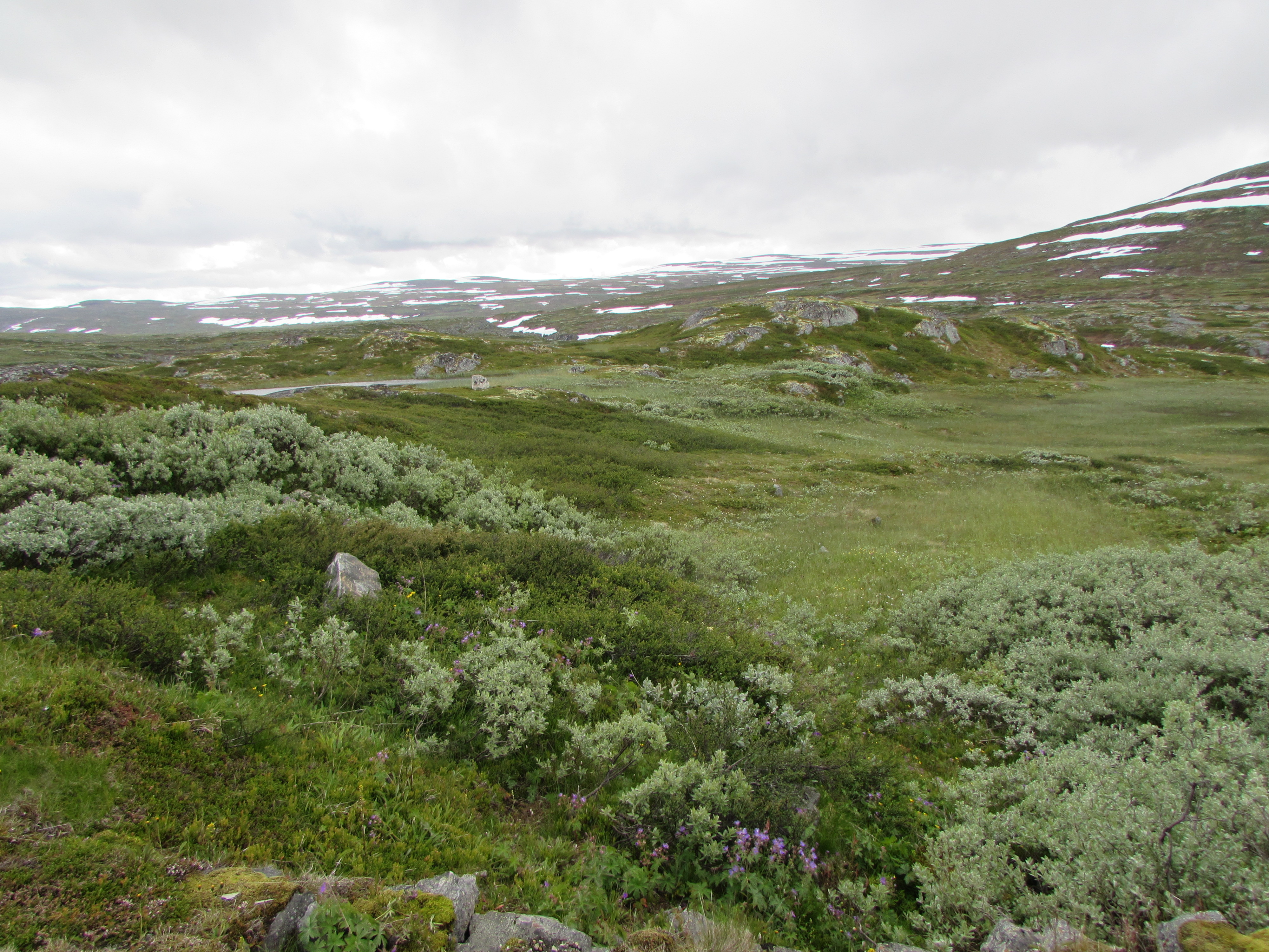 Heaths and meadows in Hardangervidda National Park